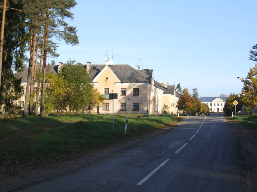 Miera iela in Seda town (road P26)